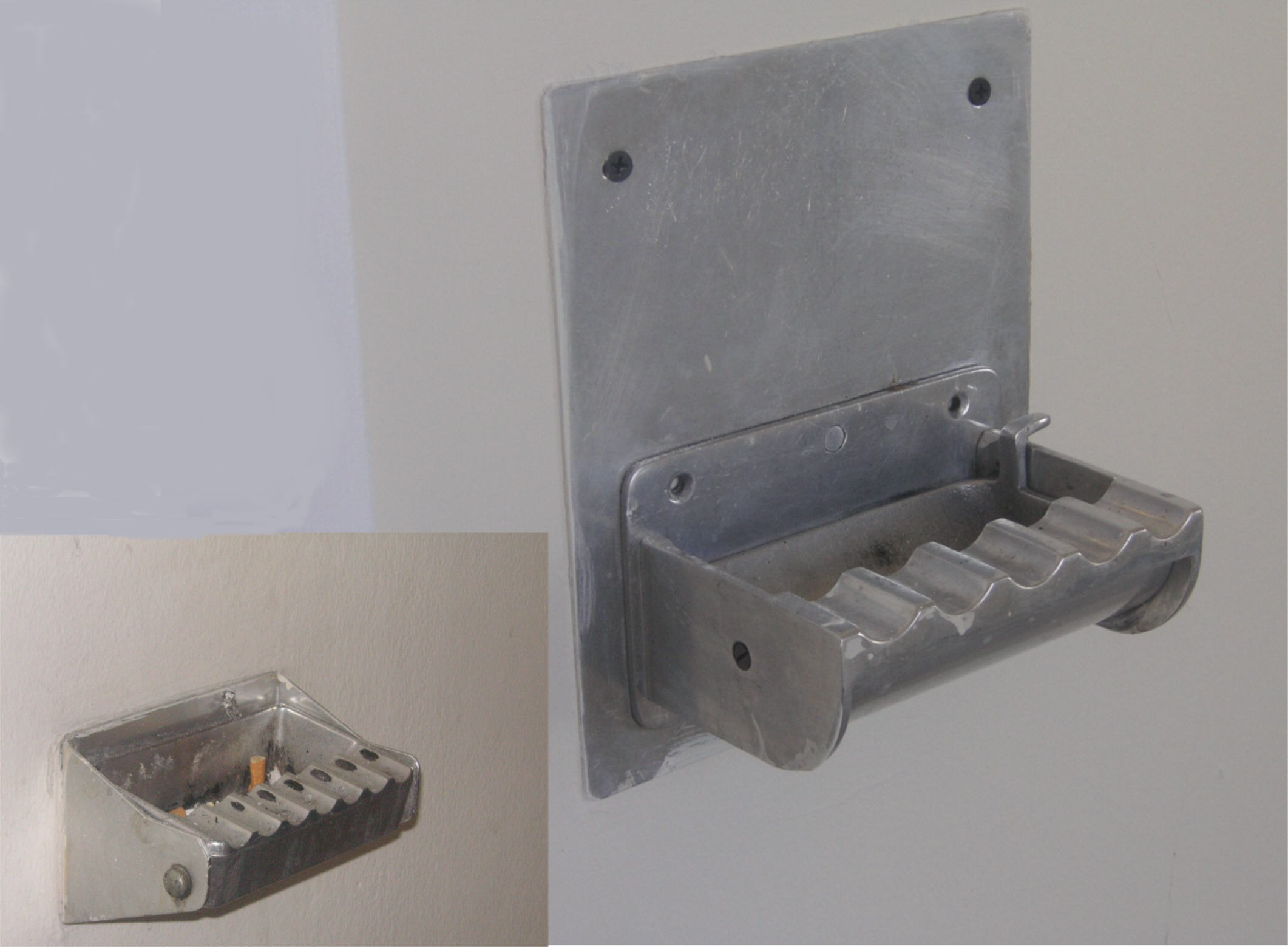 In the days when smoking was still permitted in public buildings, ashtrays were fixed to the walls in corridors at regular intervals. Those ashtrays often had removable parts for easy cleaning, as shown in these examples from the ORF Funkhaus (opened in en:1938) in Vienna, Austria. Photo by KF, June 2006.